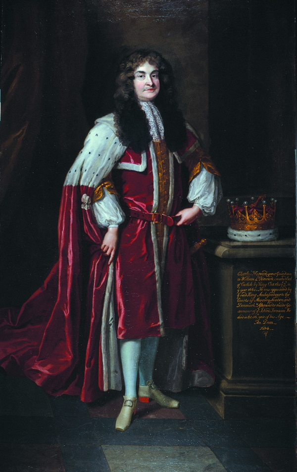 Charles Howard, 1st Earl of Carlisle (1629-1685)